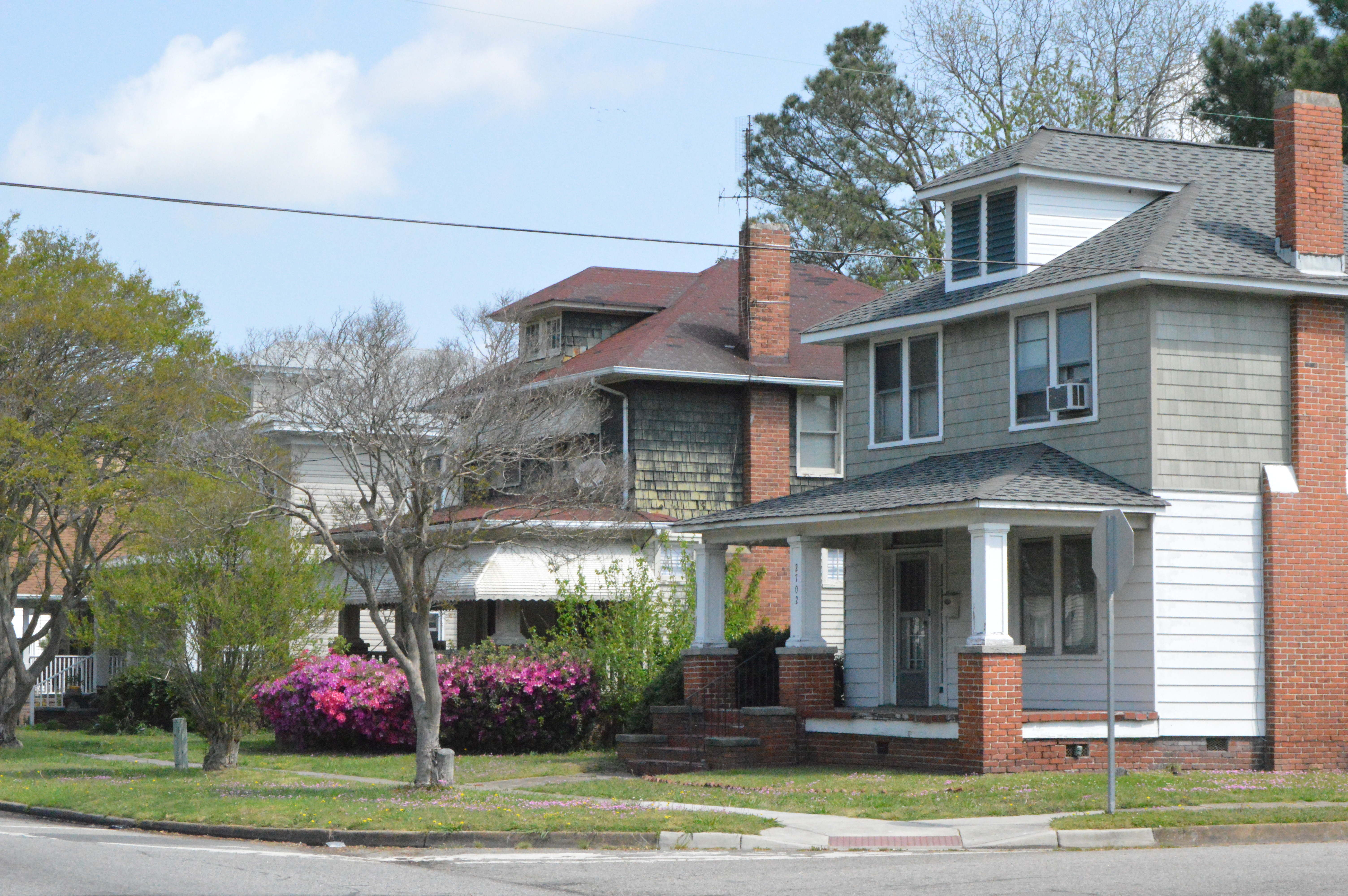 Houses on the eastern side of Ballentine Boulevard immediately north of the Davis Street intersection in Norfolk, Virginia, United States. This block is part of the Ballentine Place Historic District, a historic district that is listed on the National Register of Historic Places.